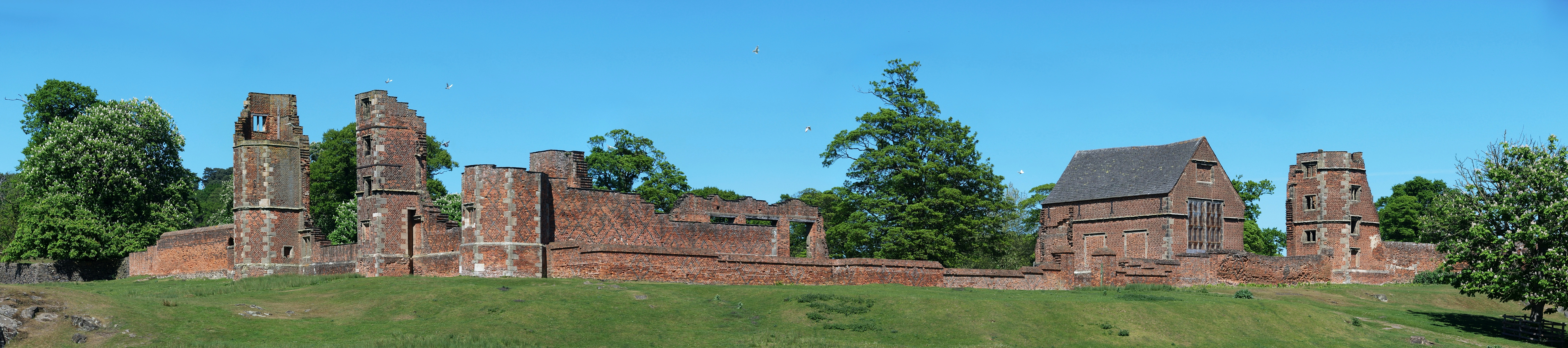 Bradgate House is a ruined country house located in Bradgate Park in Leicestershire. It was completed around 1520, making it one of the earliest non-fortified brick-built country houses in England